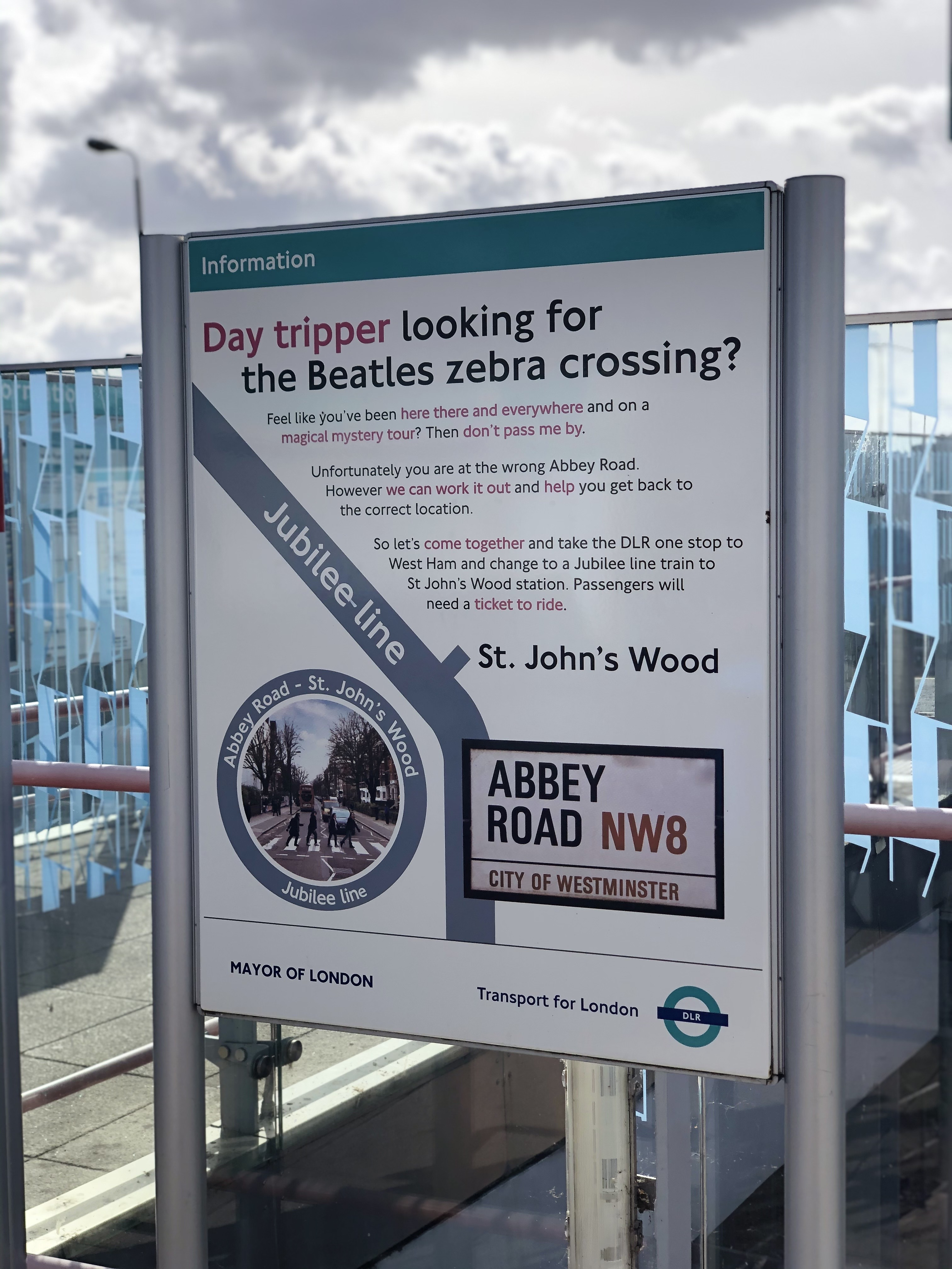 A sign erected at the Abbey Road Docklands Light Railway Station in London, United Kingdom, showing that this is not the station for the Abbey Road Zebra Crossing that is made famous by the Beatles.